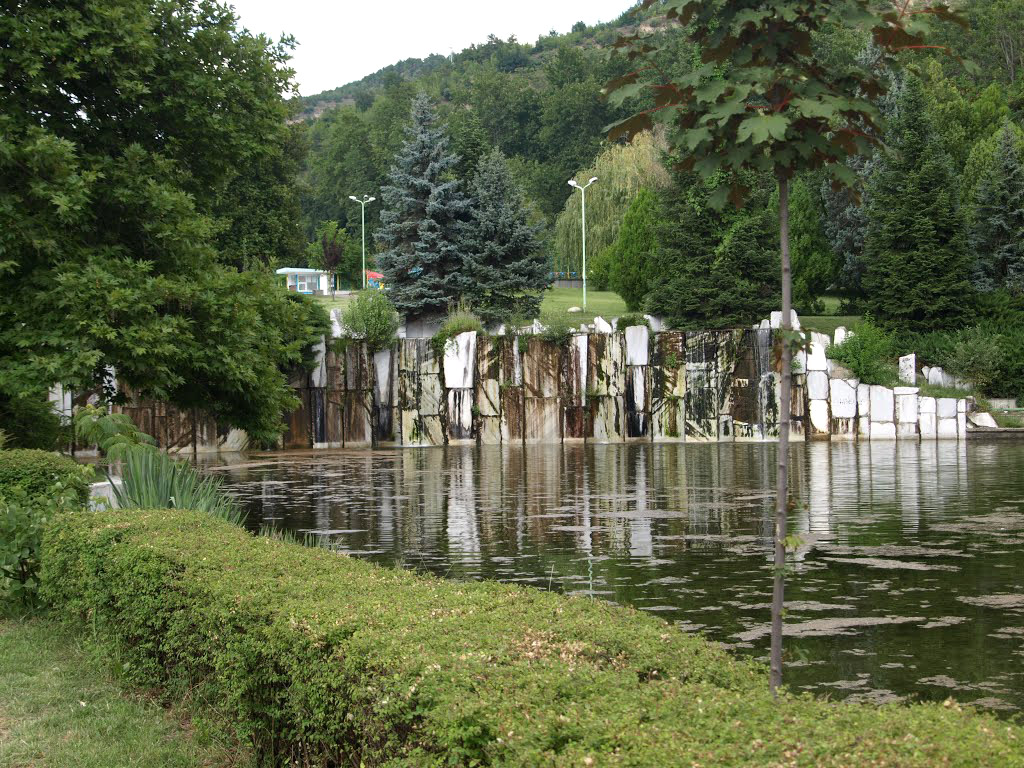 Lake in Sveti Vrach Park. Sandanski.